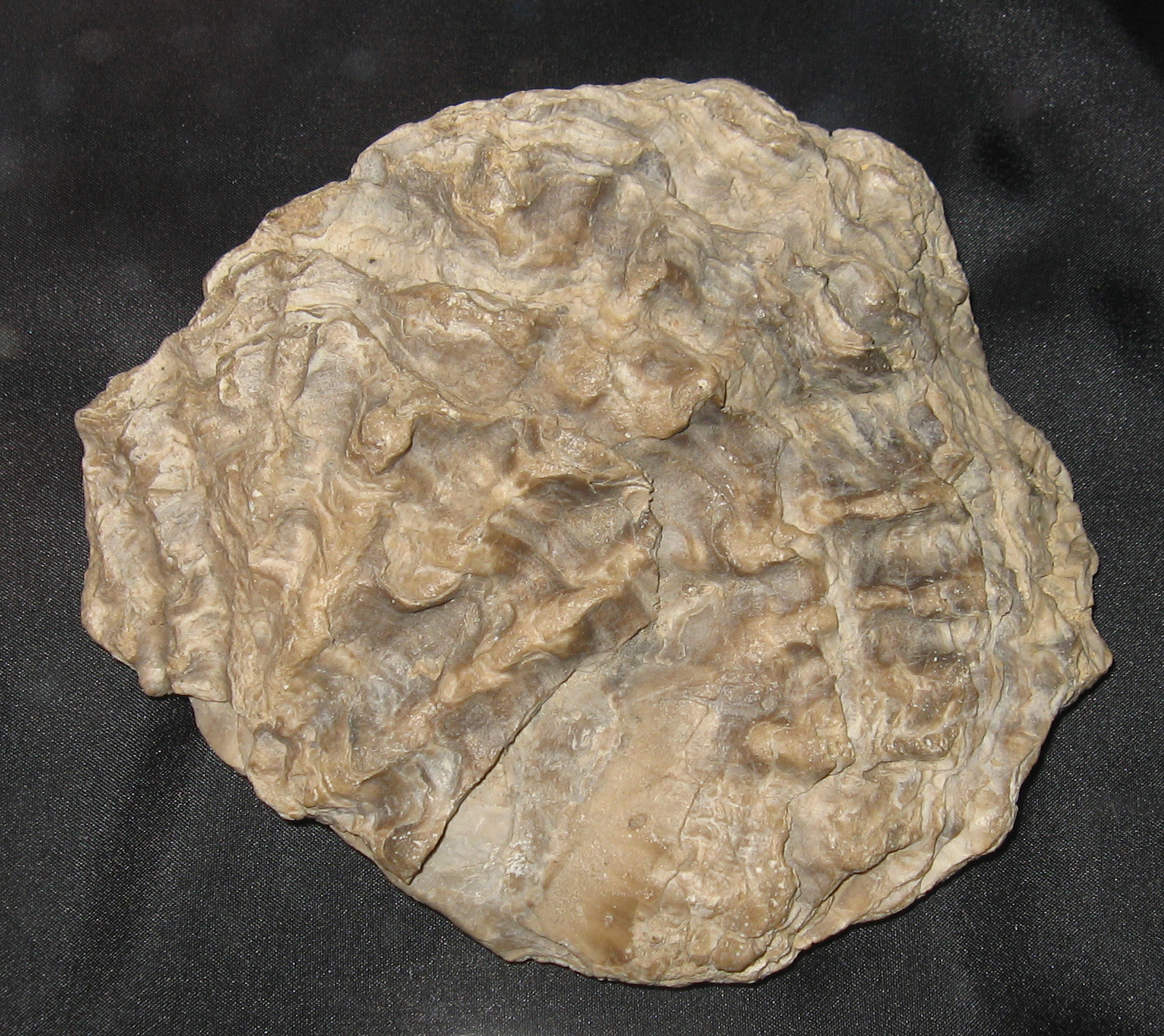 A fossil specimen of Crassostrea virginica, Location and age unknown. Photographed at the North Seattle Lapidary and Mineral Club Show.